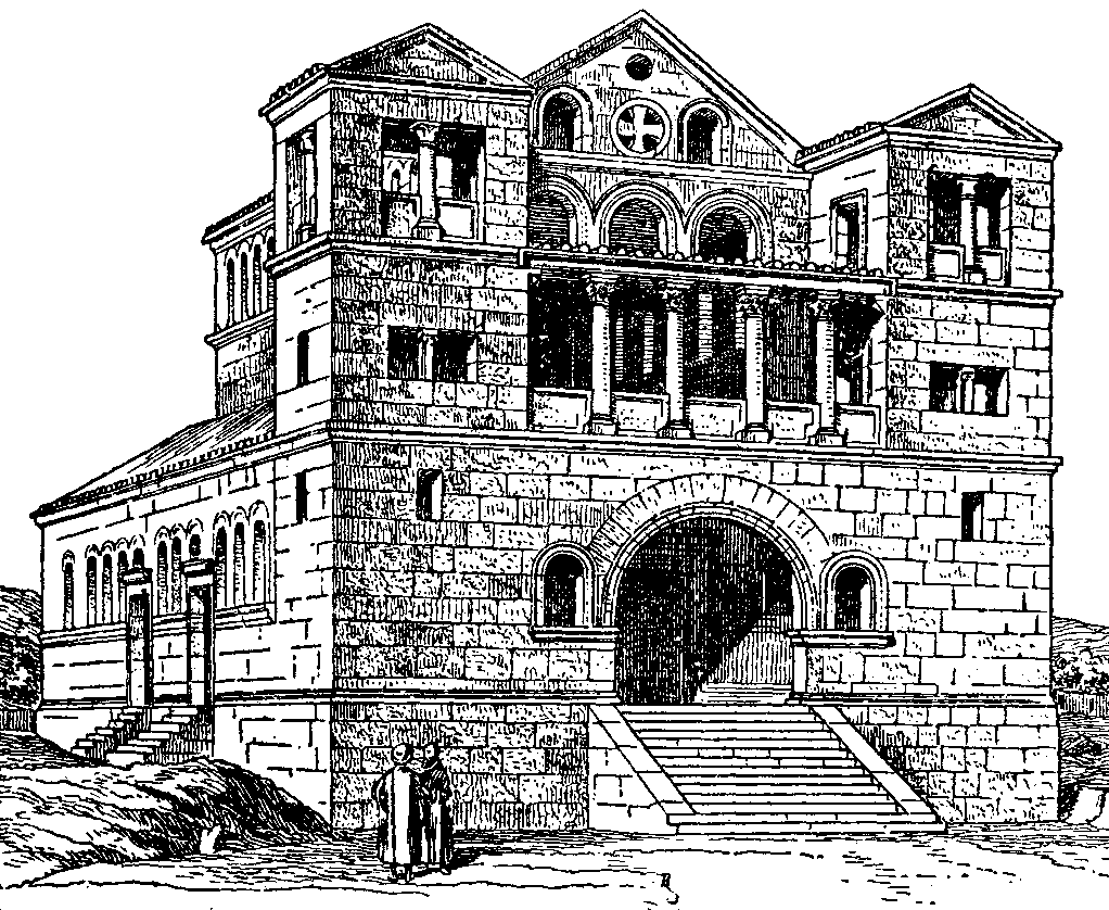 Church of Turmanin. It has a nave arcade and seven arches carried on columns.